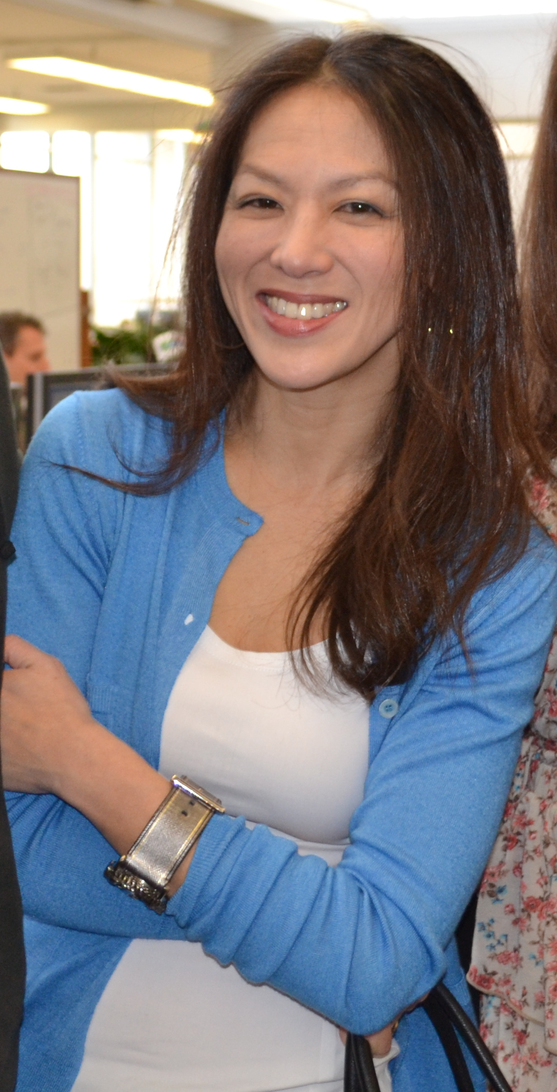 Amy Chua